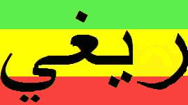 Reggae with arabic letters and the colours red, gold and green